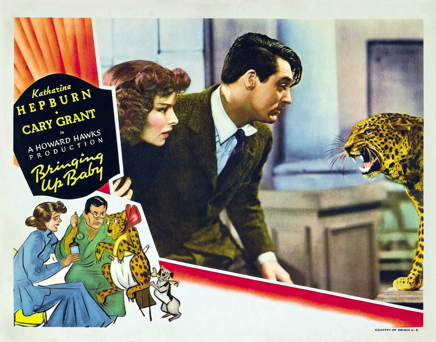 Description: Low-res image of original lobby card for the film Bringing Up Baby (1938), featuring stars Katharine Hepburn and Cary Grant Corporate author/original rights holder: Radio-Keith-Orpheum Corp./Radio Pictures Inc.